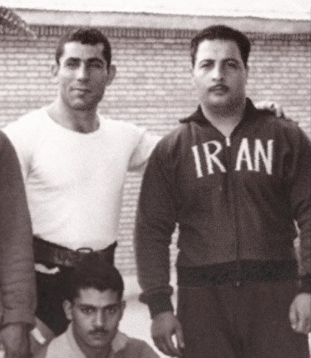 Iranian Weightlifting Team for the 1960 Olympics. Mohamed Tehraniami and Hassan Ferdous